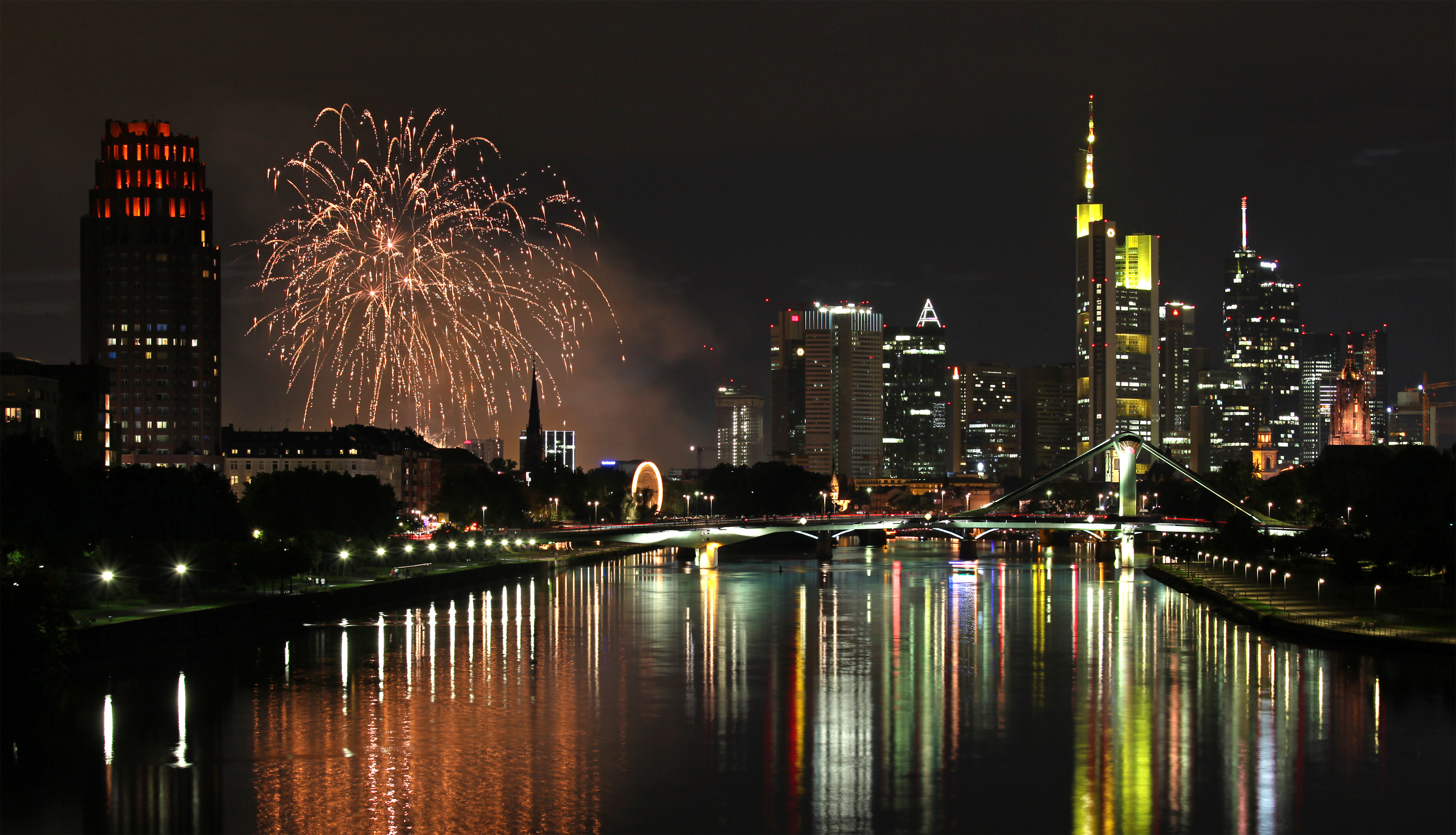 fireworks of Mainfest with Main and Skyline in Frankfurt am Main, Germany